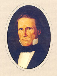 George Tyler Wood, second Governor of the State of Texas.